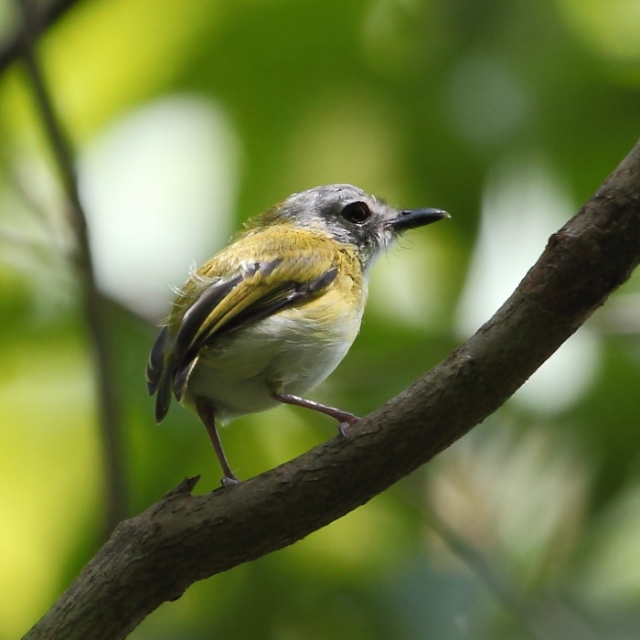 Short-tailed Pygmy-Tyrant at Apiacás - MT - Brazil